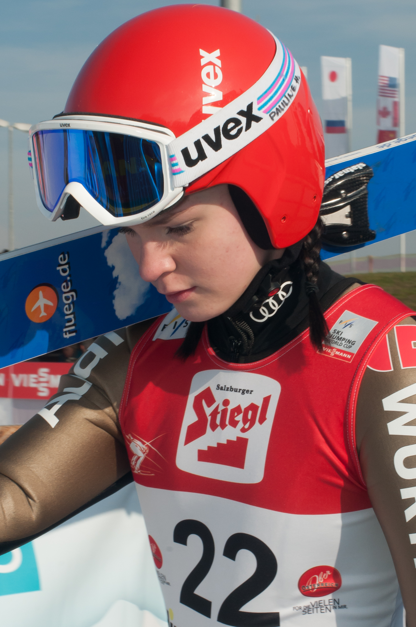 FIS Ski Jumping World Cup Ladies Hinzenbach 2016-02-07